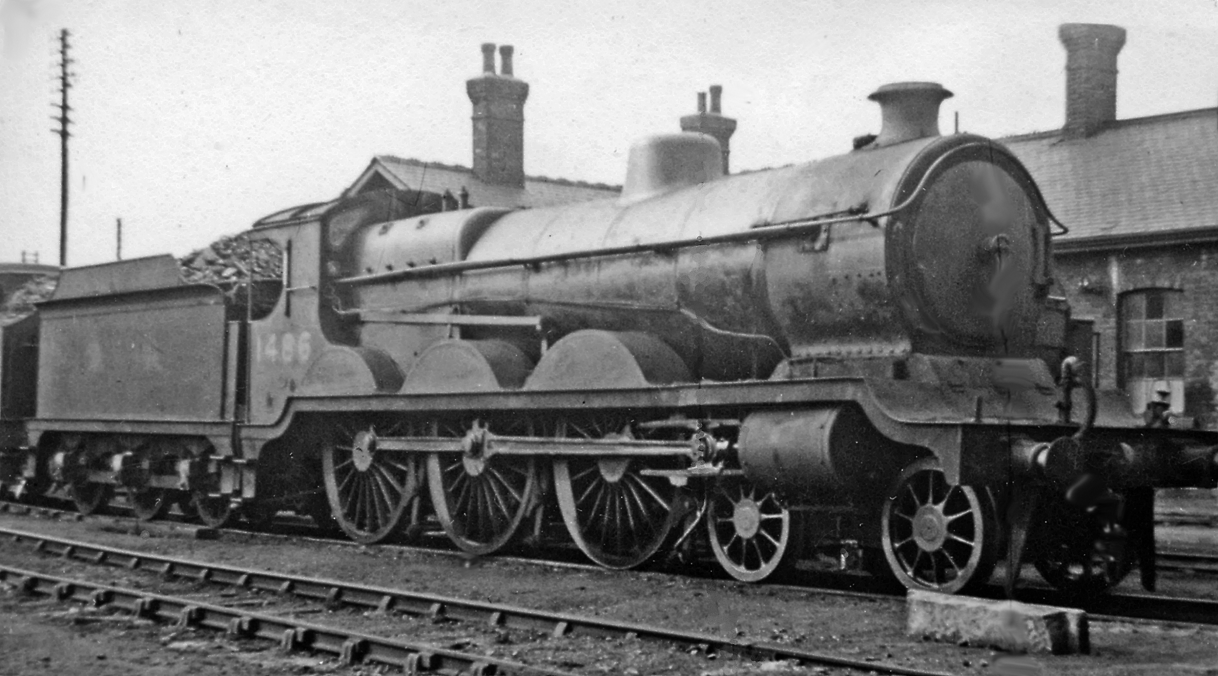 Ex-GC Robinson 4-6-0 at Ardsley Locomotive Depot. Although good engines, the various Robinson 4-6-0 classes had a relatively short life, probably because they were 'non-standard, being ousted by Thompson B1s soon after World War 2. The B4 class were built mainly for fast freight and fish train work; No. 1486 (ex-No. 6101) was built 6/1906, withdrawn 10/47; it still has the wartime 'NE' on the tender.